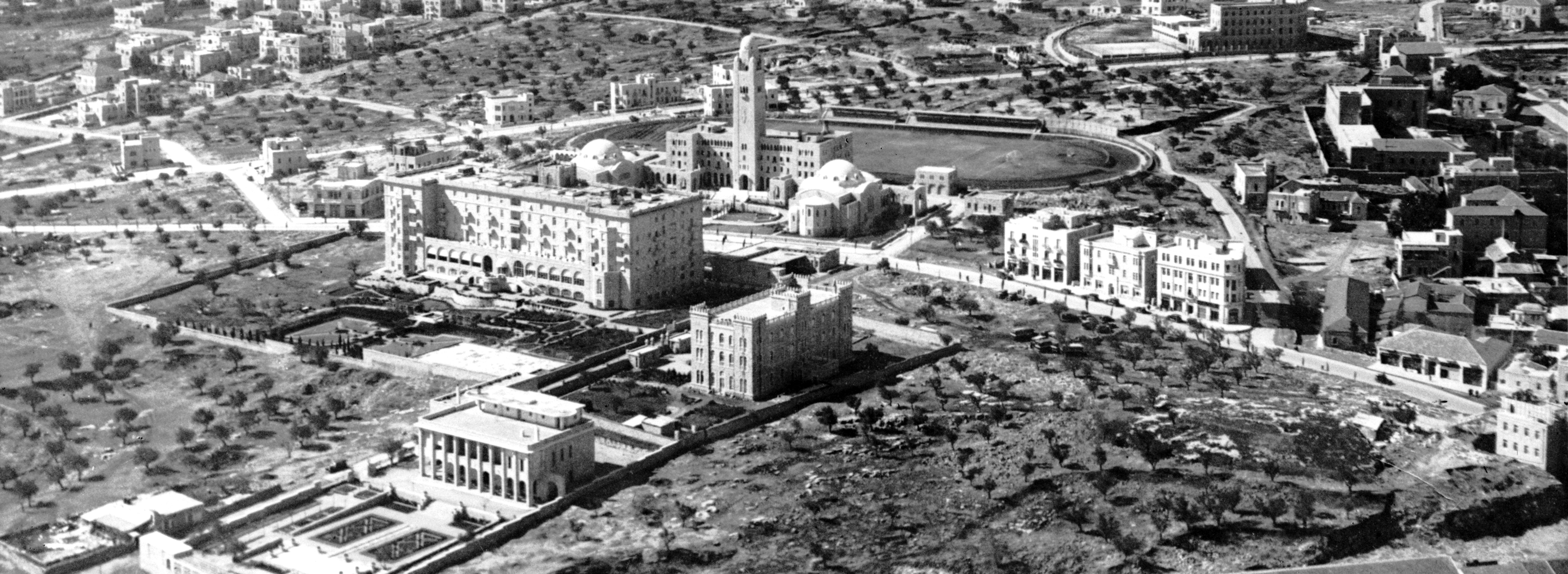 Air views of Palestine. Jerusalem from the air. Newer Jerusalem. Y.M.C.A. and King David Hotel. Looking southwest with French consulate general and the Jesuit seminary